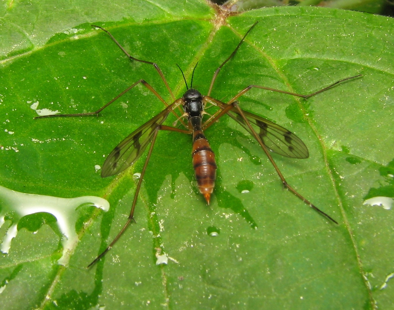 Phantom crane fly, Ptychoptera quadrifasciata. Corneille Bryan Native Garden, Lake Junaluska, Haywood County, North Carolina, USA.